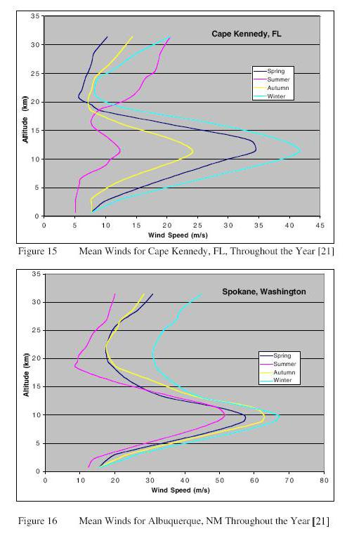 Wind Profile vs Altitude I have uploaded the file under the following License